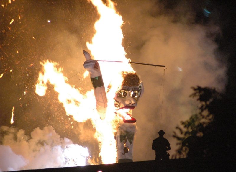 Old Man Gloom a.k.a. Zozobra burning at Fiestas de Santa Fe, September 8, 2005. Photo by Jeff Weiss.